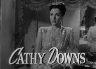 Cropped screenshot of Cathy Downs from the trailer for the film The Dark Corner.